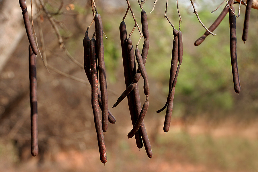 Cassia fistula - Amaltas, Indian Laburnum, Golden Shower Tree or Golden Shower Cassia, Bandarlathi, Bahava, Girimala, Rajbrikh, Garmalo, Bahava, Bawa, Garmala or Kani Poo in Mahavir Harina Vanasthali National Park, Hyderabad, India.